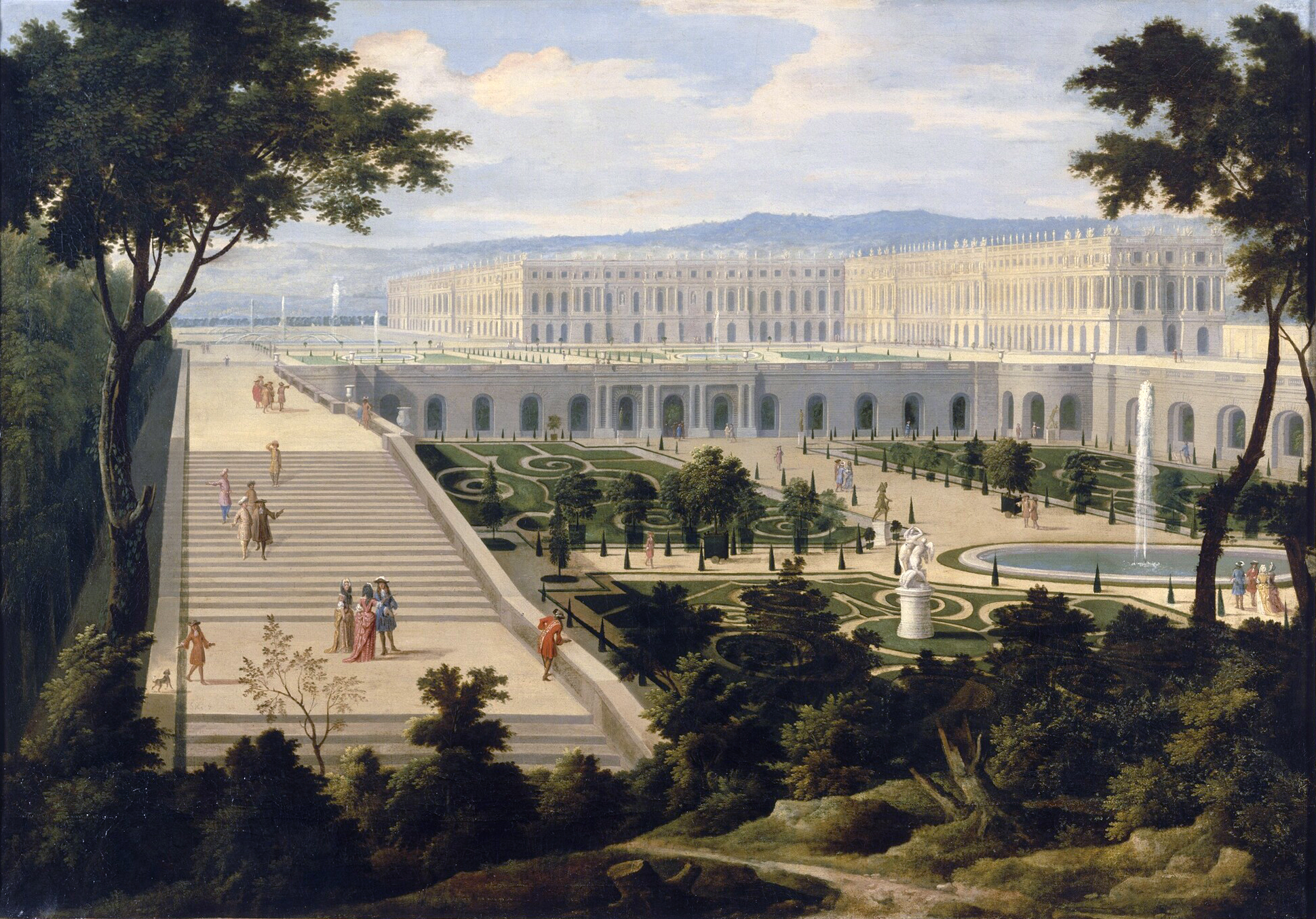 The Orangerie of the Château de Versailles